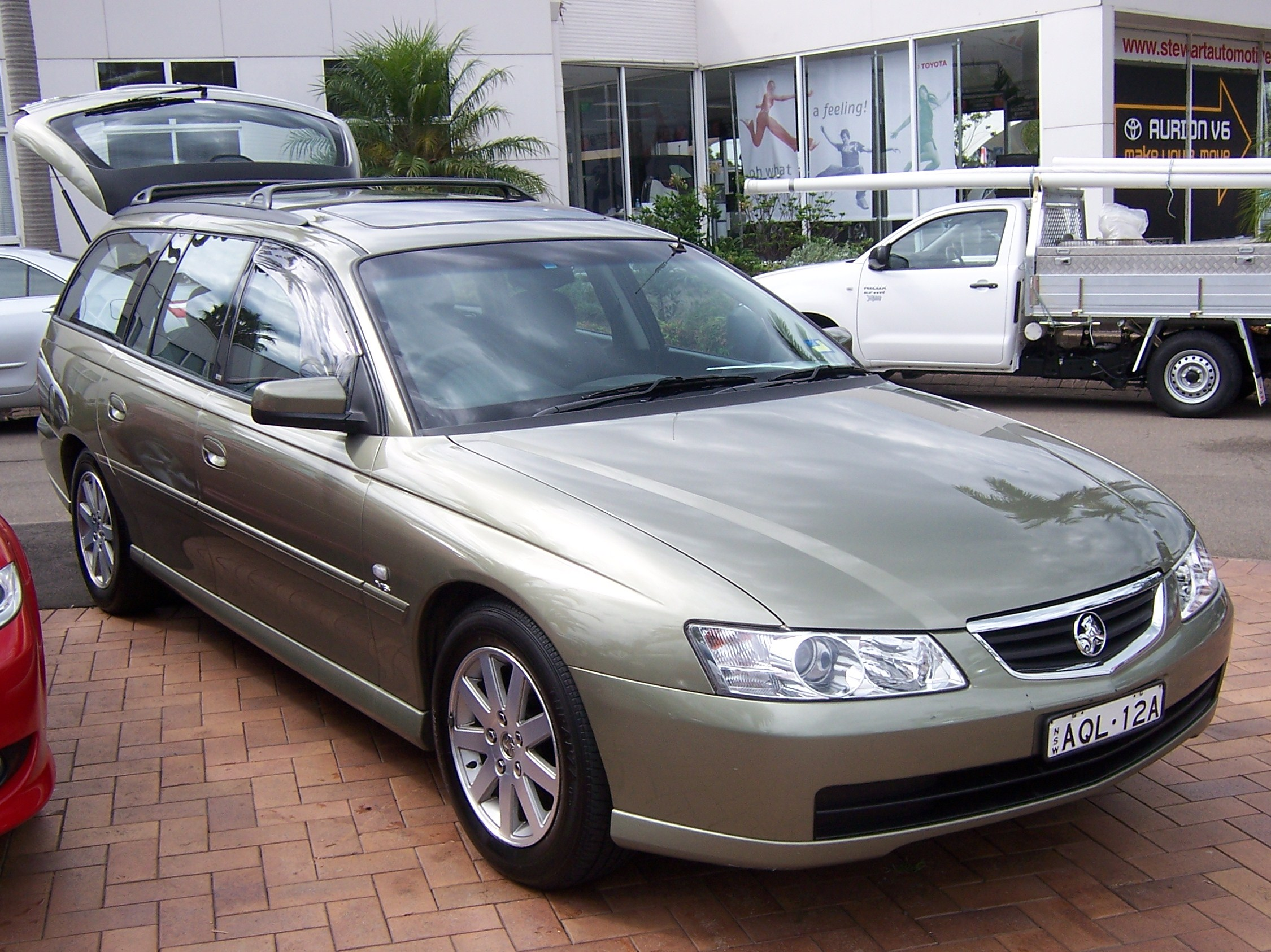 2002–2003 Holden Berlina (VY) station wagon. Photographed at McGrath Sutherland Holden, Kirrawee, New South Wales, Australia.